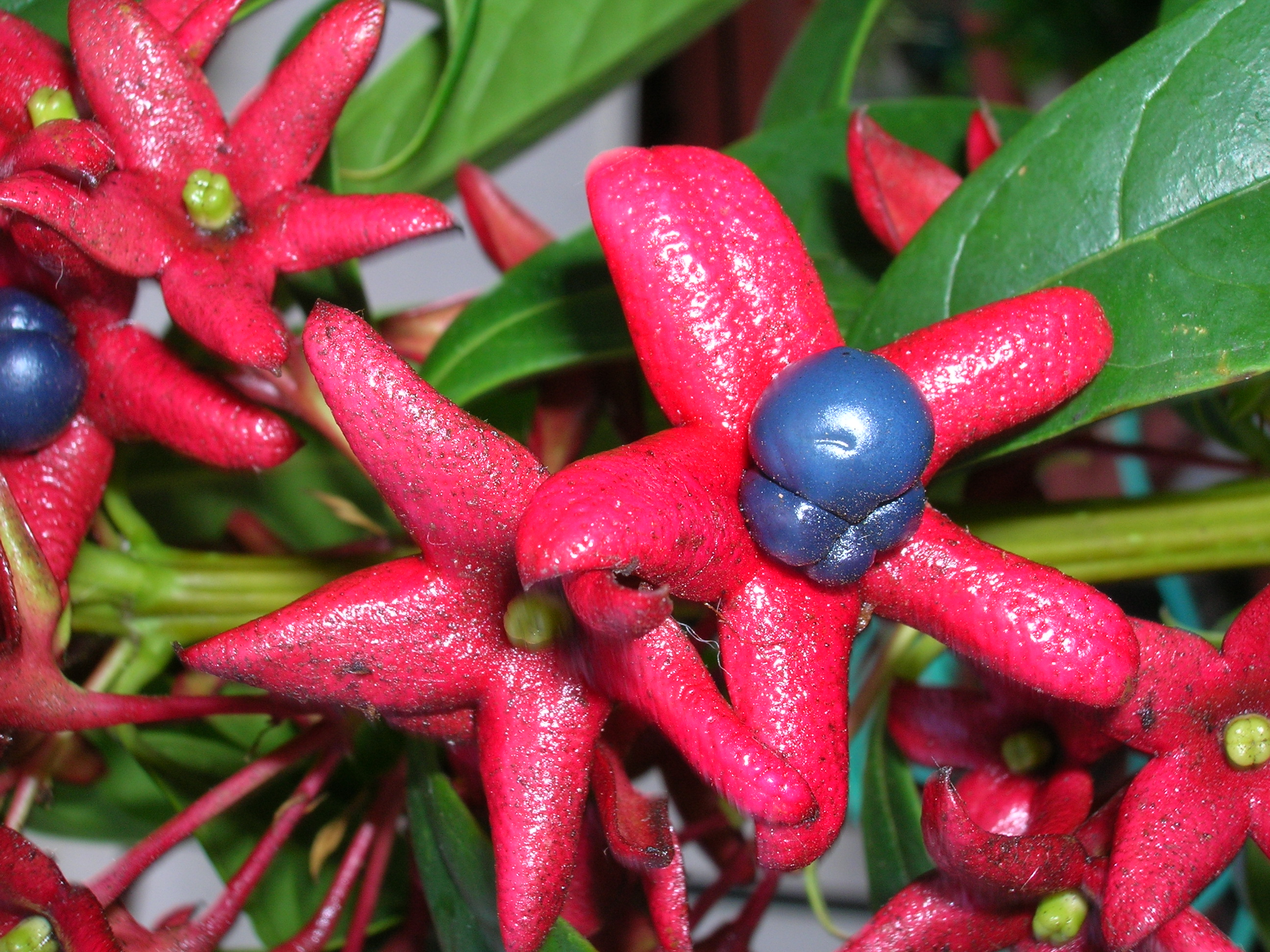 Clerodendrum indicum (flowers and fruit). Location: Oahu, Bishop Museum